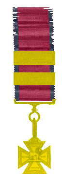 Peninsular Cross with two bars as worn by the Prince of Orange in 1815